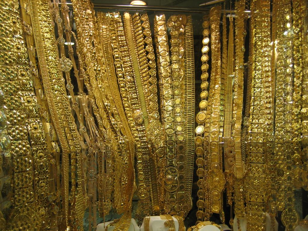 The Gold Souk, Dubai Gold on display in a window front.